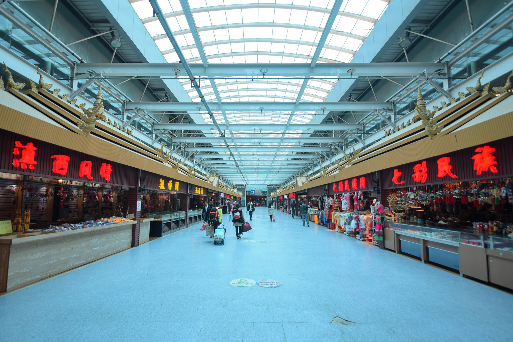 Shopping arcade, Kunming Railway Station